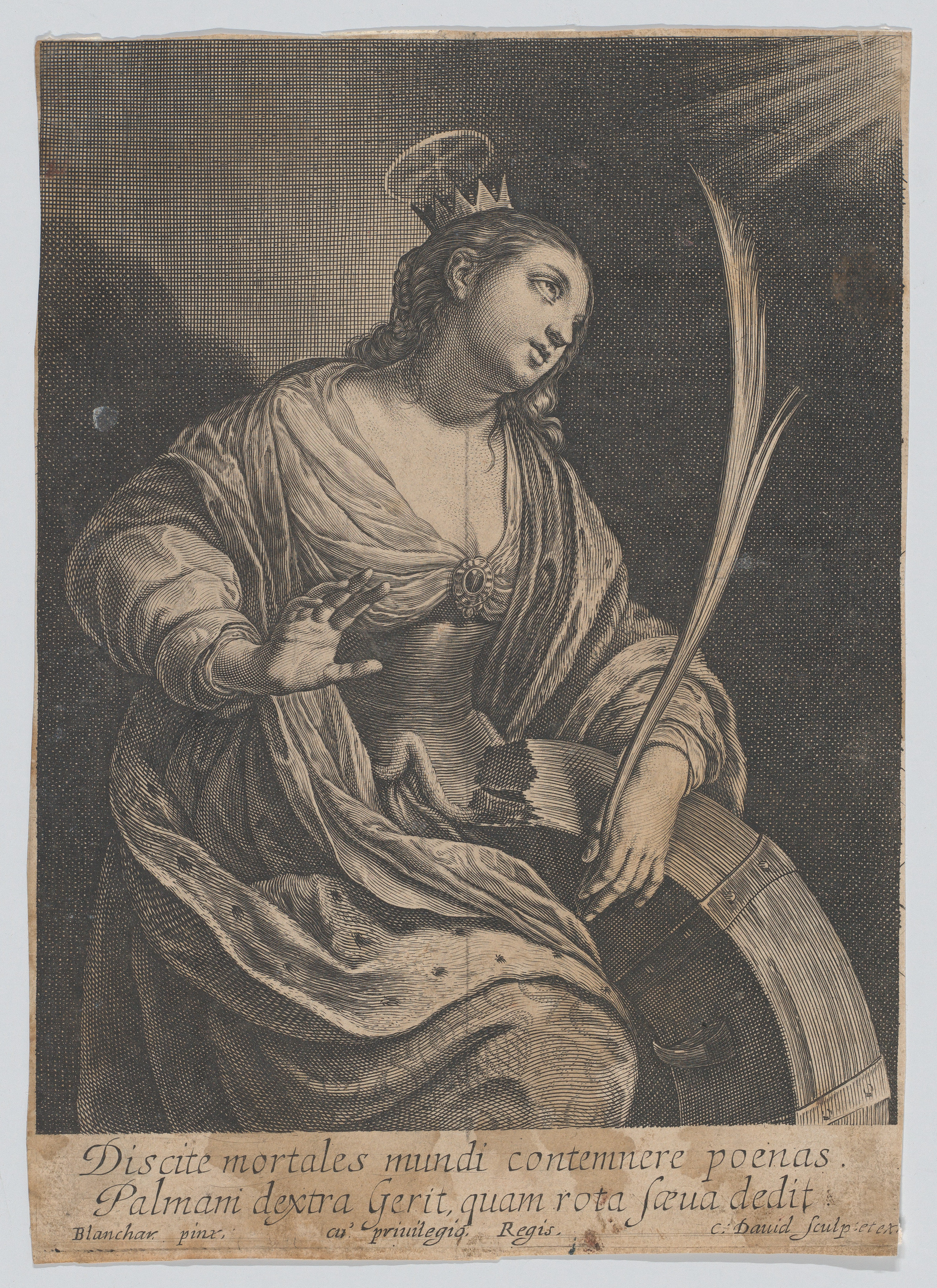 Print; Prints